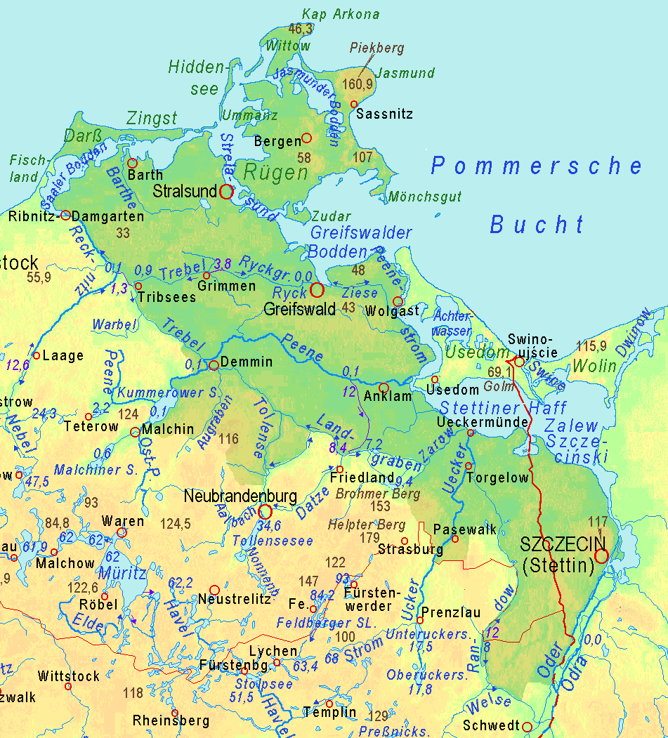 Relief map of Western Pomerania: Brown figures = soil above sea level in meters (measure at the point, name above or below) dark blue figures = water level above sea level in meters dark blue arrows = direction of water flow, emphasized rivers drawn in stronger colours, lilac = water bodies crossing divides